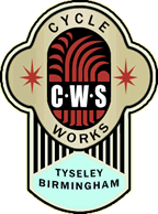 Bike headbadge for CWS (Birmingham Cooperative Wholesale Society) bicycle - design used for headbadge transfer